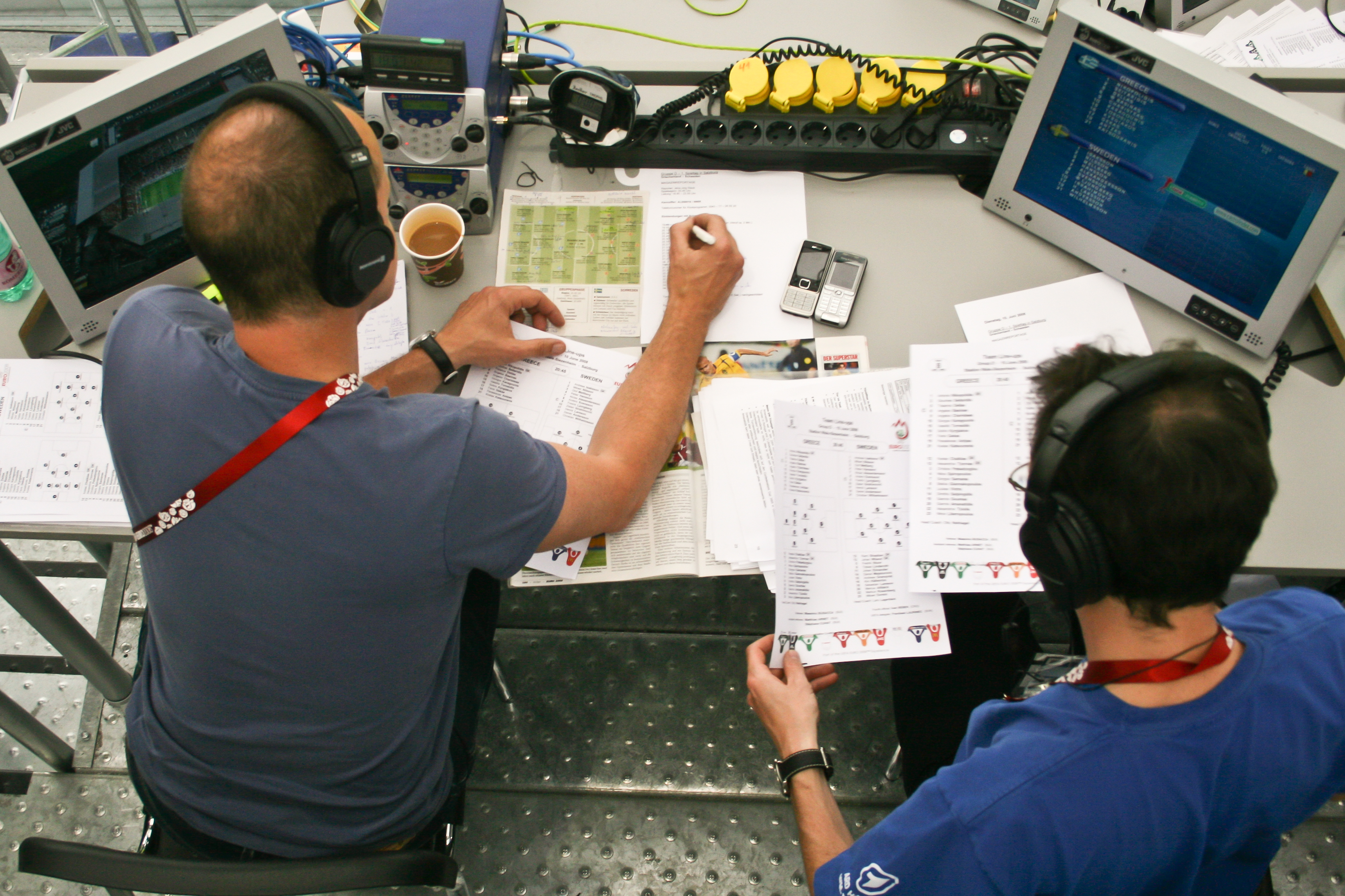 Press tribune in Salzburg during UEFA Euro 2008